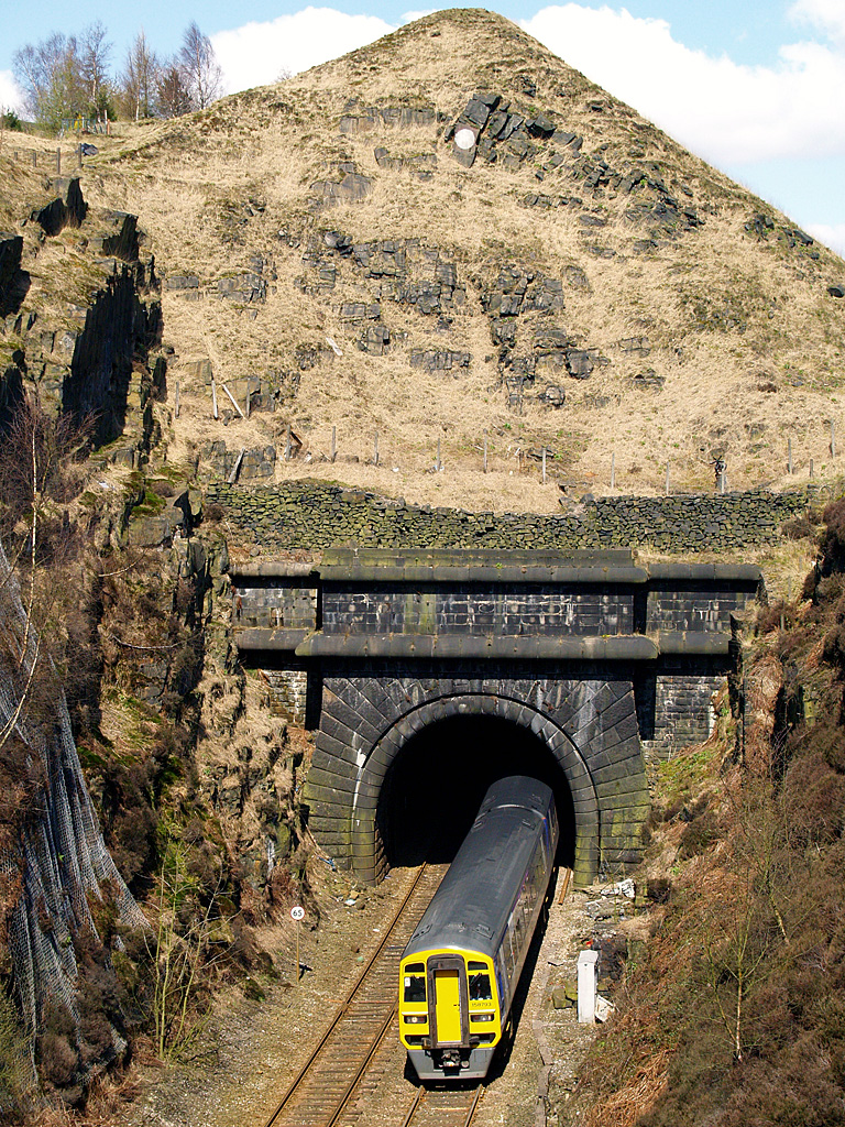 Northern Rail (leased from Angel Trains) former British Railways BREL Limited class 158/0| two car diesel-hydraulic multiple unit number 158793 emerges from Summit Tunnel southern portal at Littleborough, in Greater Manchester, England, on the Up L&Y line with a Leeds to Manchester Victoria train. Thursday 17th April 2008